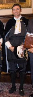 Former Captain Regent Alberto Salva of San Marino.